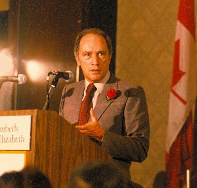 Cropped and cleaned version of File:Pierre_Trudeau.jpg